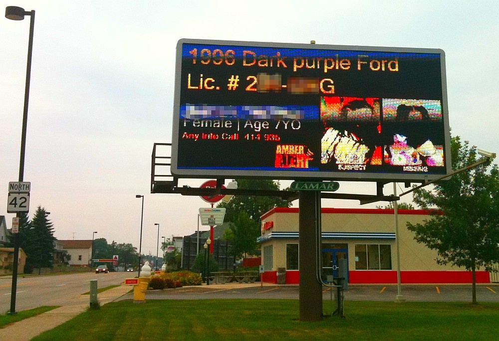 An image of an Amber Alert appearing on a billboard in Sheboygan, Wisconsin on July 5, 2010. Details about the event itself (which resulted in a successful return of the subject) have been blurred to protect the privacy of the subject of the alert.